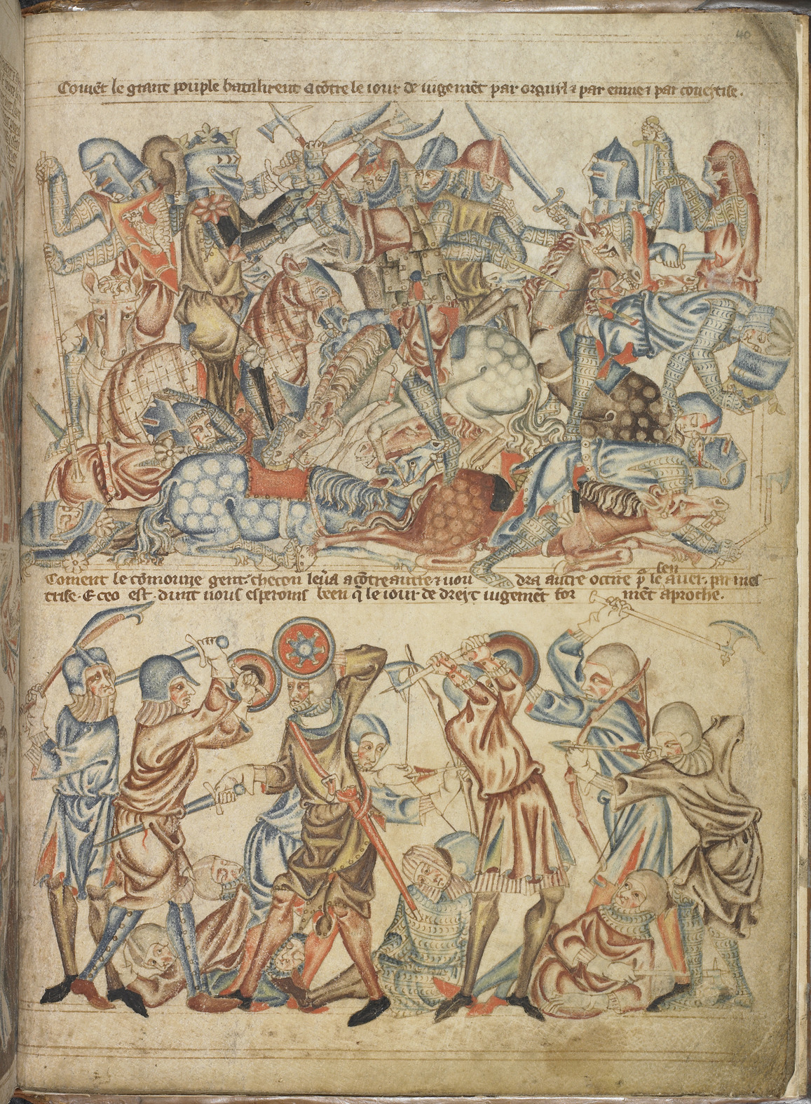 Peers and commoners fighting [Whole folio] Above; the peers fight each other on horseback.They wear full armour, including bascinets with large moveable visors; one carries a shield with a wyvern, another has a spiked poleyn on his knee.The king has a visor with a grilled sight, and star shaped ailettes on his shoulders. The weapons are axes, falchions and straight swords. Below, the commoners fight each other on foot. Their armour is lighter, including bascinets without visors. The weapons illustrated are a falchion, a glaive, swords, axes, and two bows, with arrows